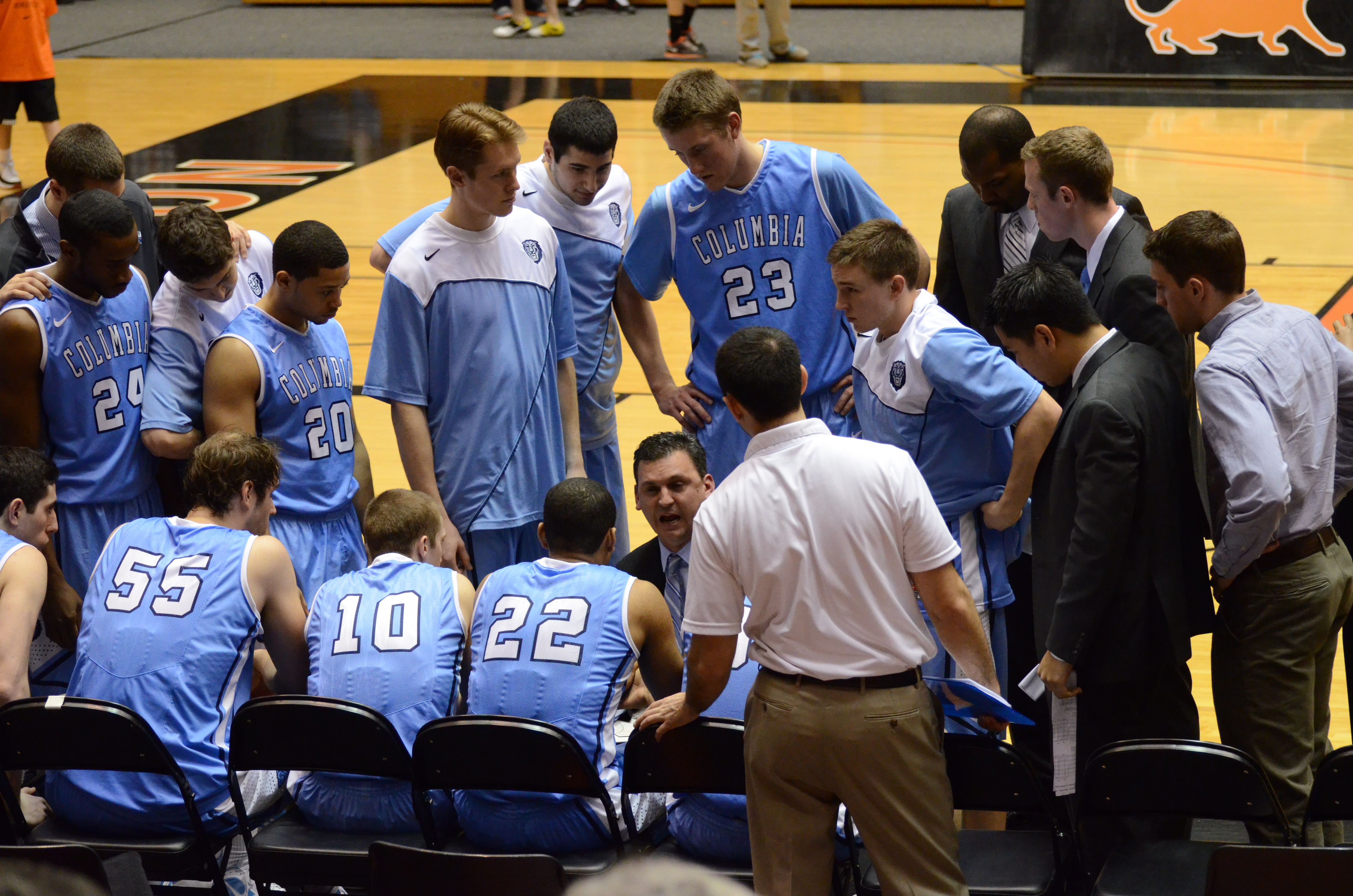 Columbia University men's basketball coach Kyle Smith instructs his team during a timeout vs. Princeton in 2012.